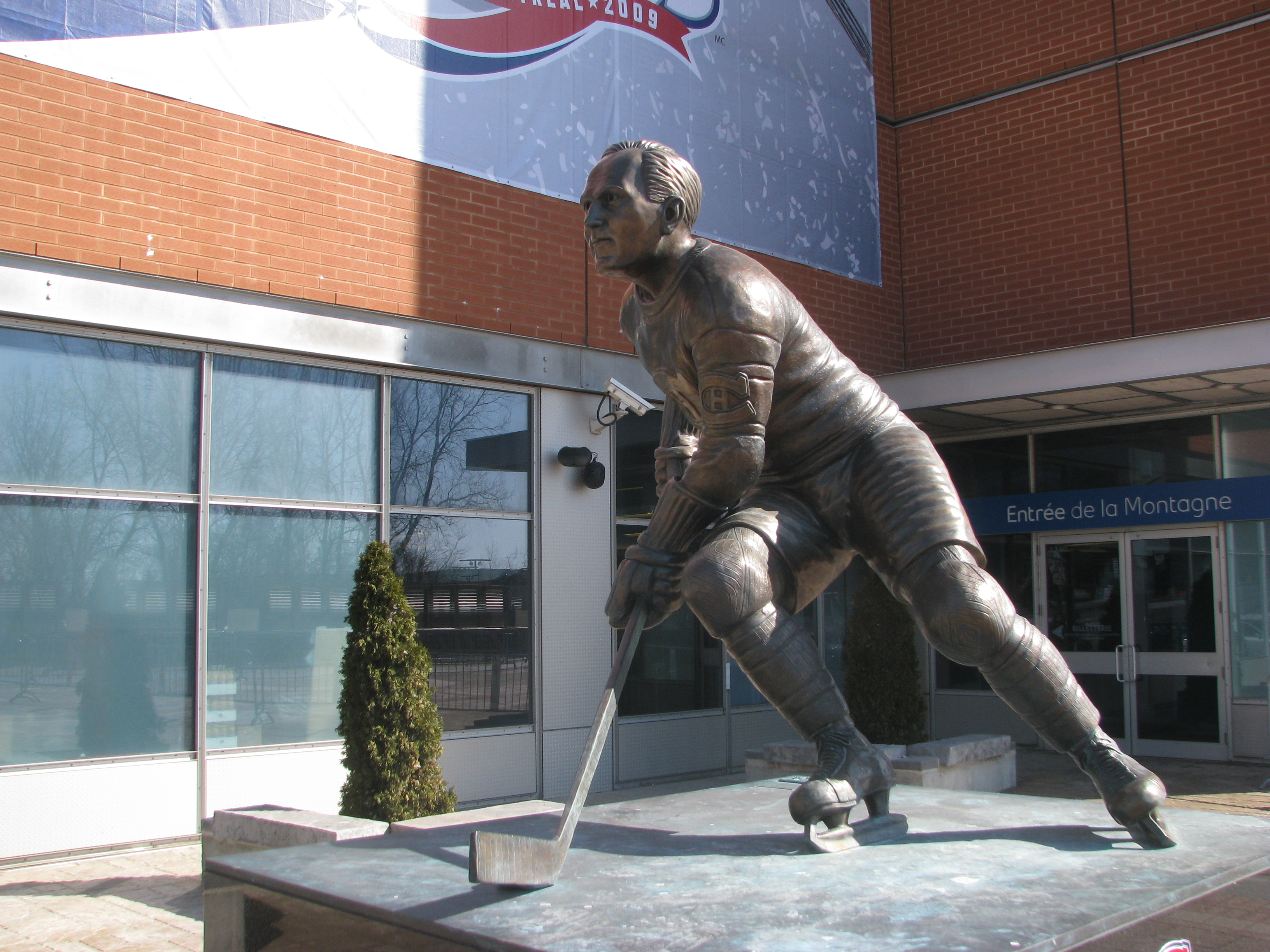 Howie Morenz statue near Centre Bell in Montréal, Québec, Canada